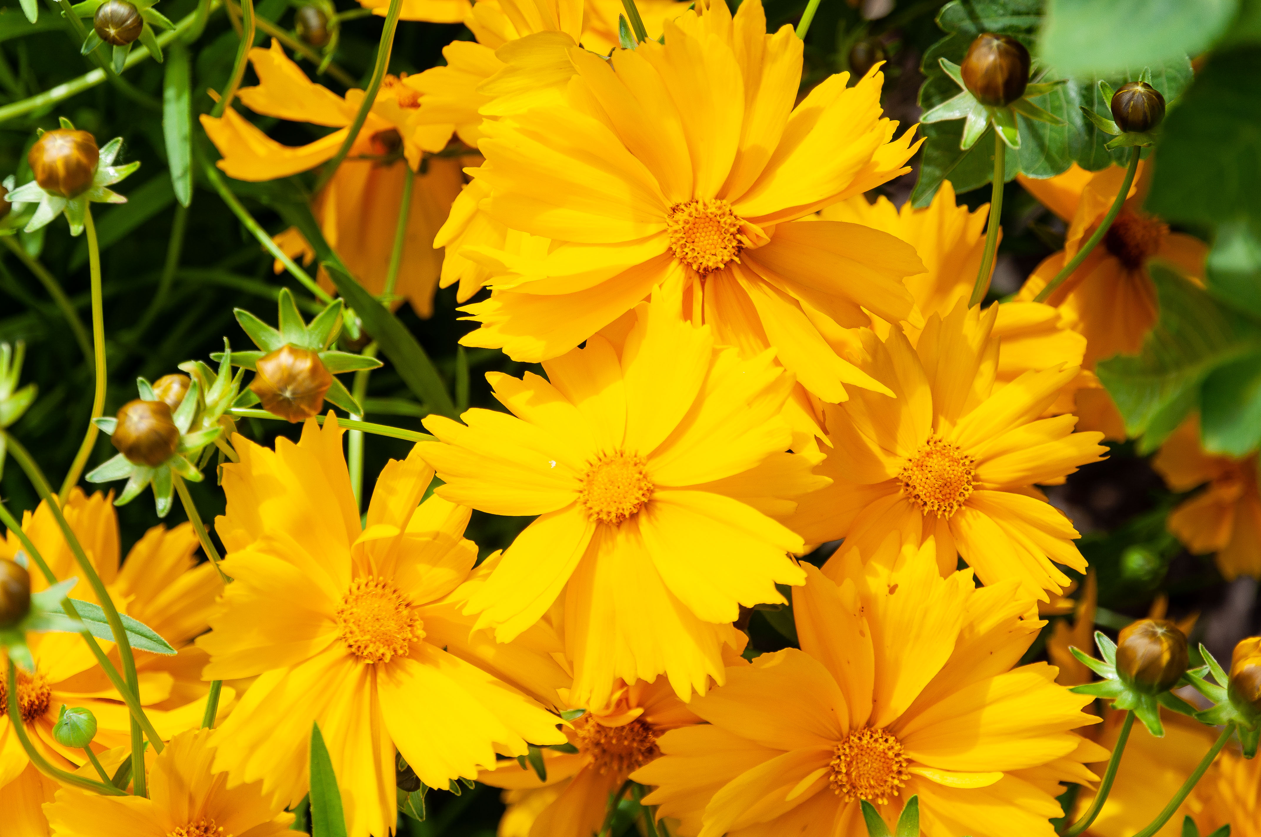 Coreopsis lanceolata, one of the many plants cultivated in the Paris plant garden.